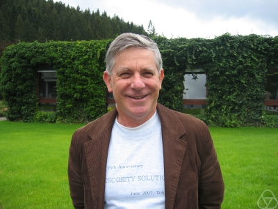 Neil Trudinger, Australian mathematician, at Oberwolfach in 2007.